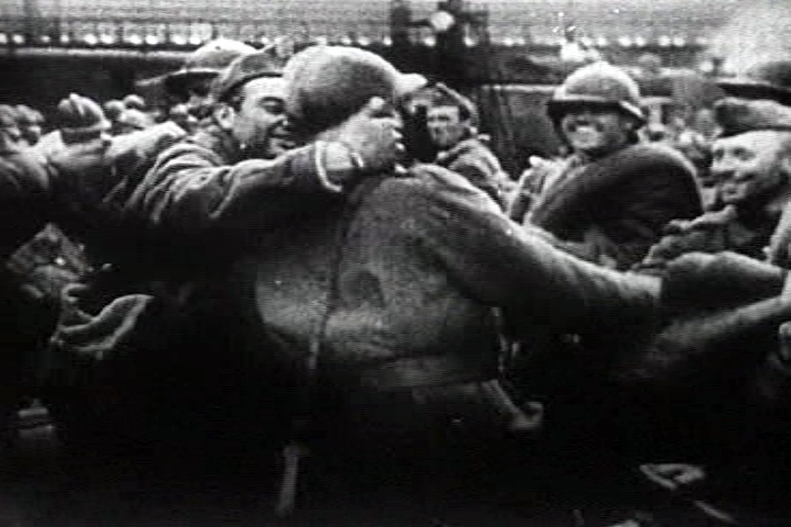 Dunkirk rescued French troops disembarking in England (1940). Screenhot taken from the 1943 United States Army propaganda film Divide and Conquer (Why We Fight #3) directed by Frank Capra and partially based on, news archives, animations, restaged scenes and captured propaganda material from both sides.